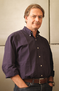 Dimitris Potiropoulos, greej architect